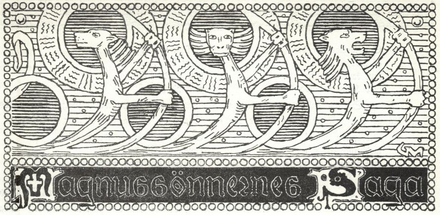 Gerhard Munthe: Illustration for Magnussønnenes saga, Heimskringla 1899-edition. Tittelfrise.